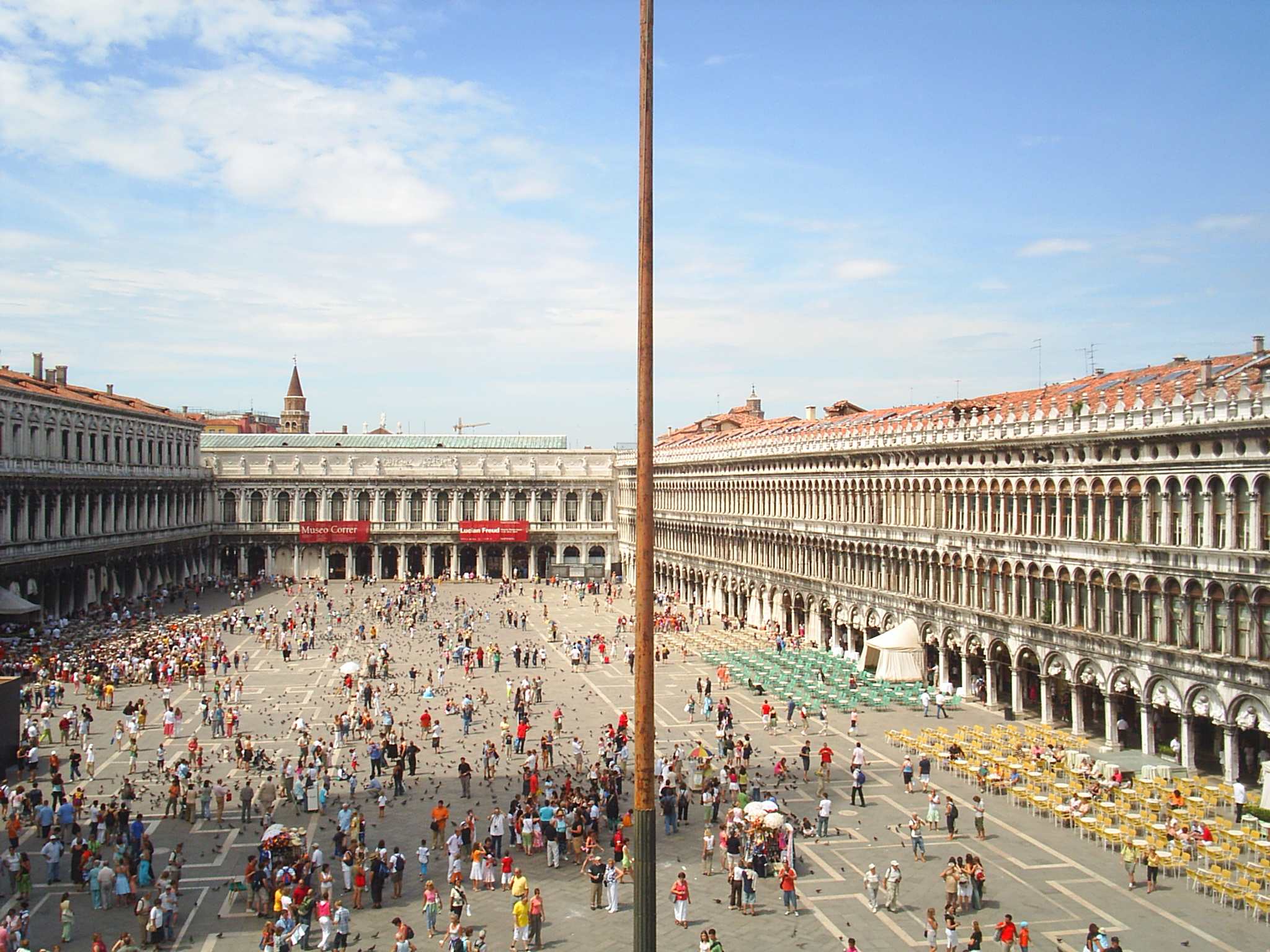 St Mark's Square